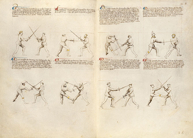 J. Paul Getty Museum Ms. Ludwig XV 13, ff 27v-28r (Venice, early XV century, 279x206 mm).